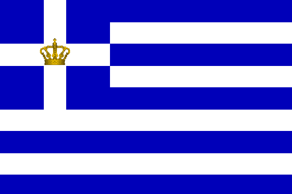 State and War version of the Naval Ensign of the Kingdom of Greece, under the Glücksburg dynasty (1863-1924 and 1935-1970). Royal crown superimposed on center of the cross.